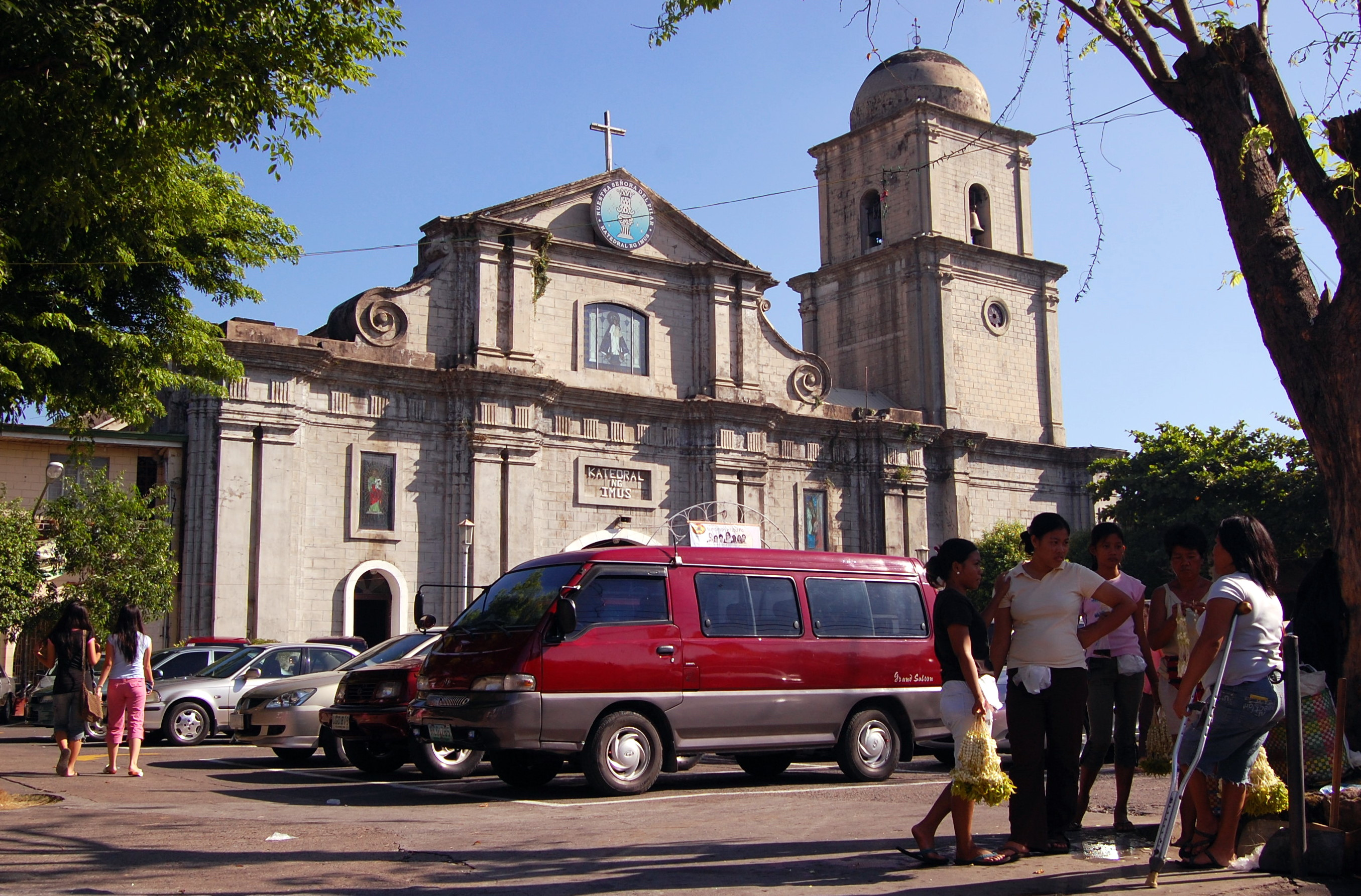 Imus Cathedral. The Jesuits built the first church between 1618 and 1629. This was probably replaced by another church that was built by the Augustinian Recollects at around 1686. The church was destroyed by a typhoon in 1779 and relocated to Toclong where another church was probably built.